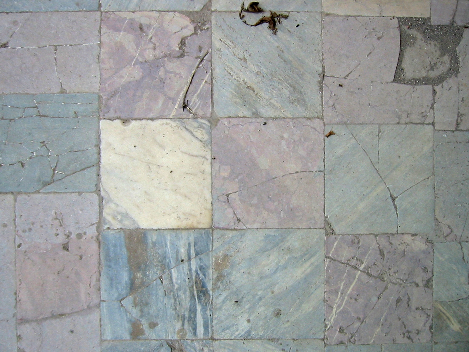 Marble-tile floor at the Terme Taurine near Civitavecchia (the roman Cantumcellae) in Lazio, Italy